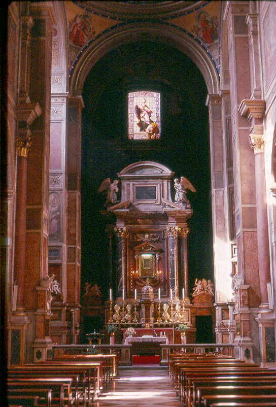 Interior of S. Agostino, Rome, with nave and High Altar